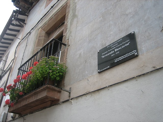 Commemorative plaque at the birthplace of Armando Buscarini.